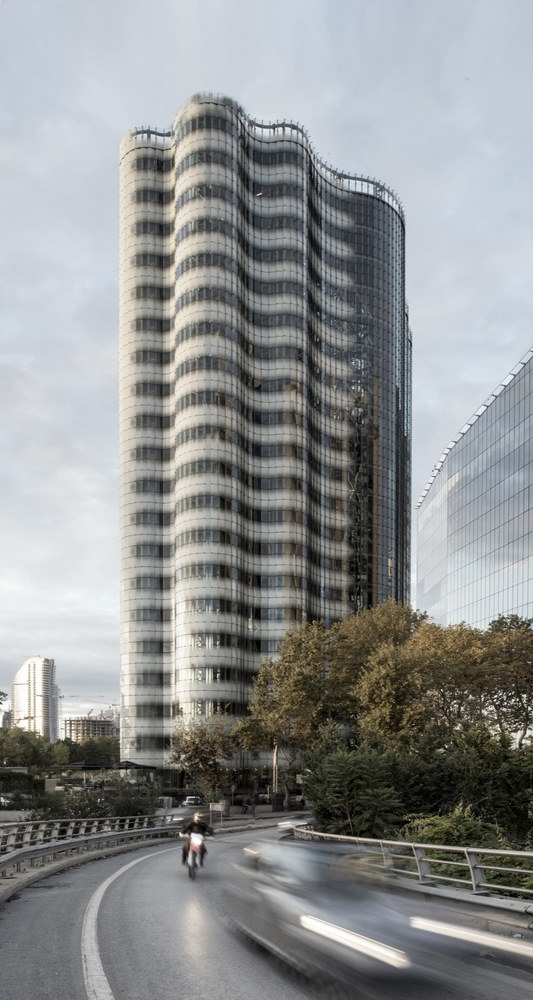 The project for the office building to be situated on the Mecidiyekoy-Maslak axis, where Turkey’s foreign capital takes its most visible form, was conditioned by the tension between density of its environ and the tightness of the project site. It was the client’s wish that the building would be a prestigious building, just like all the other surrounding buildings which only meant to be prominent, having been developed with no certain rule, plan or order.